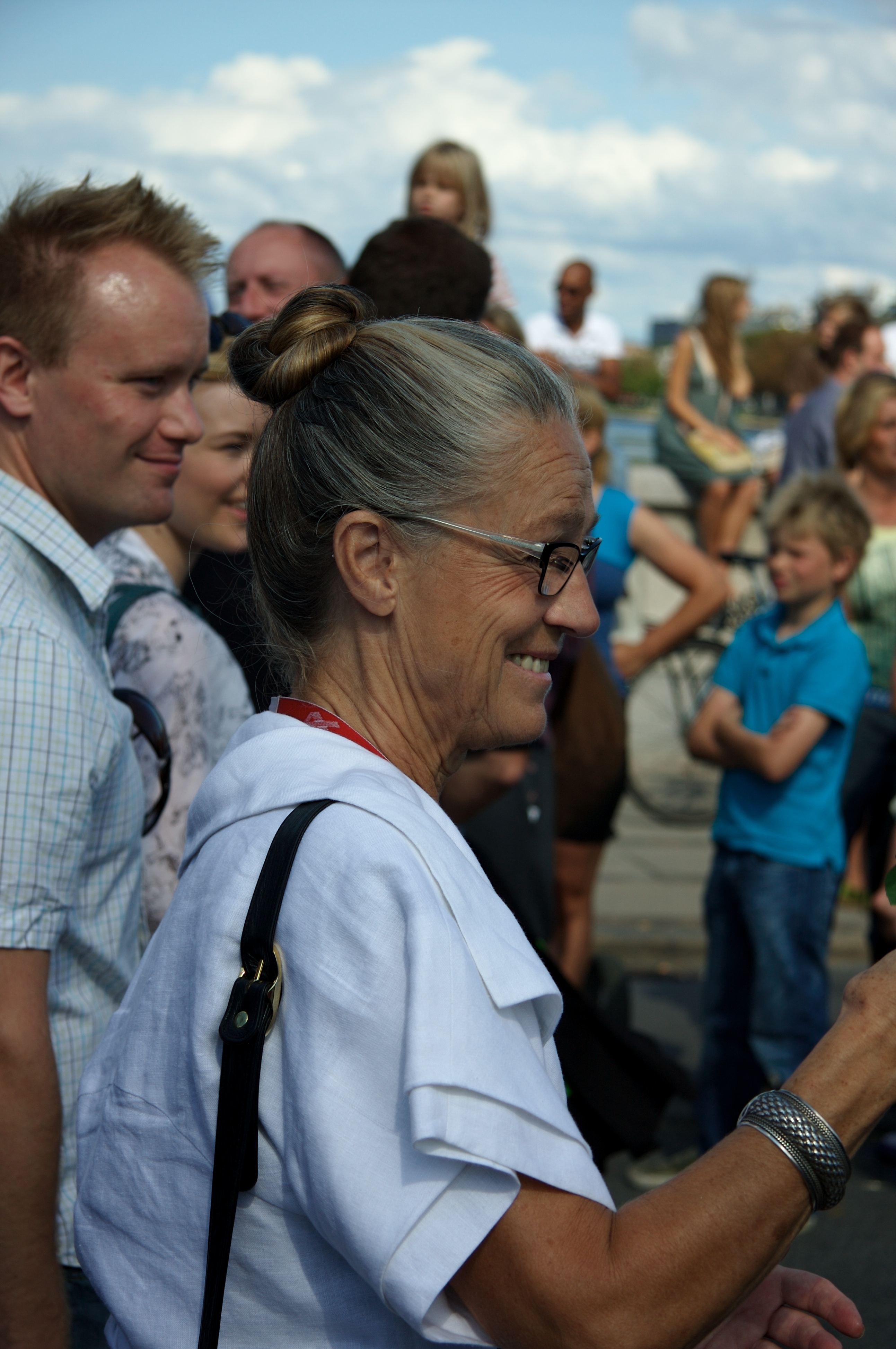 Ritt Bjerregaard, Lord Mayor of Copenhagen, at the 2008 Copenhagen Pride Parade